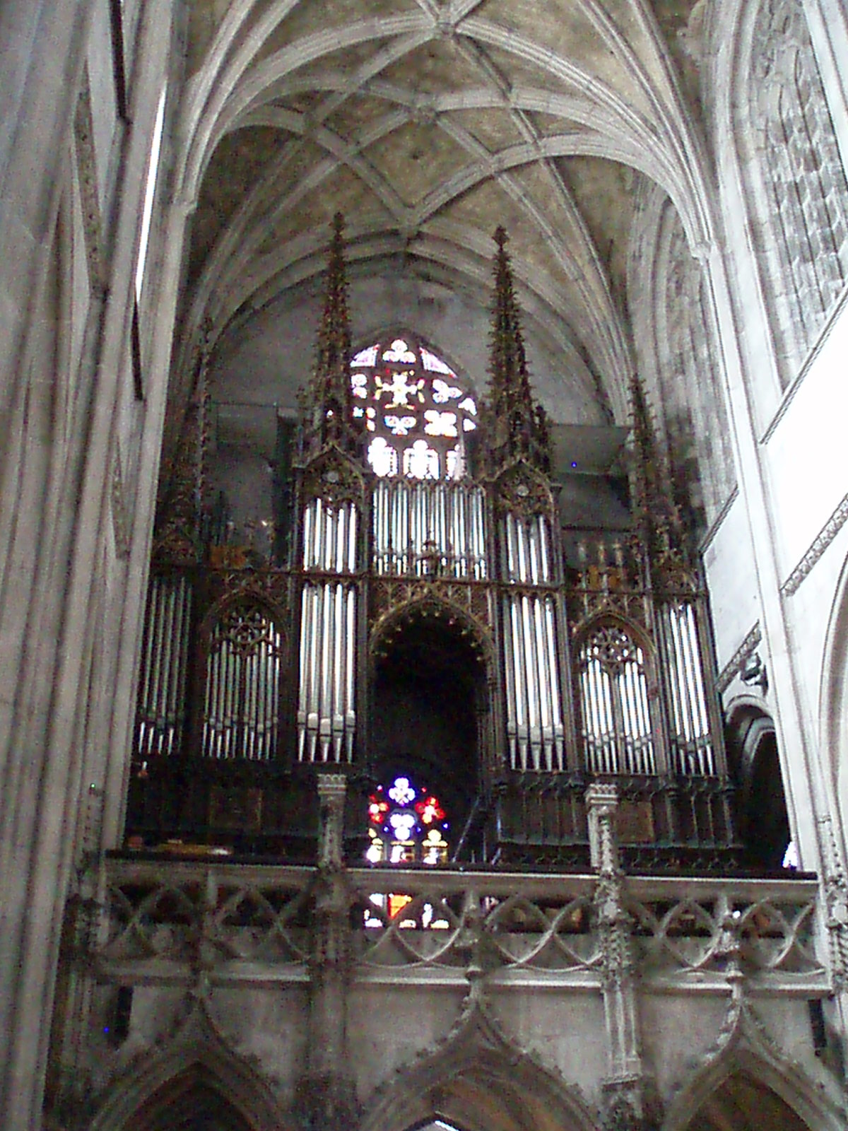 Choir of St.Elisabeth, Košice